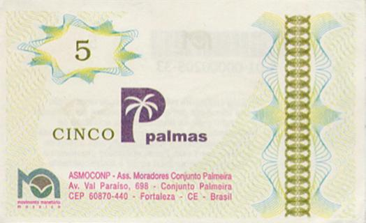 5 Palmas. Social Palmas Currency